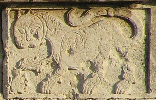 The symbol of the Sultan Baibars, inscripted on the Baibars Bridge, near Lod, Israel (a detail from Image:BaibarsBridge22.JPG)